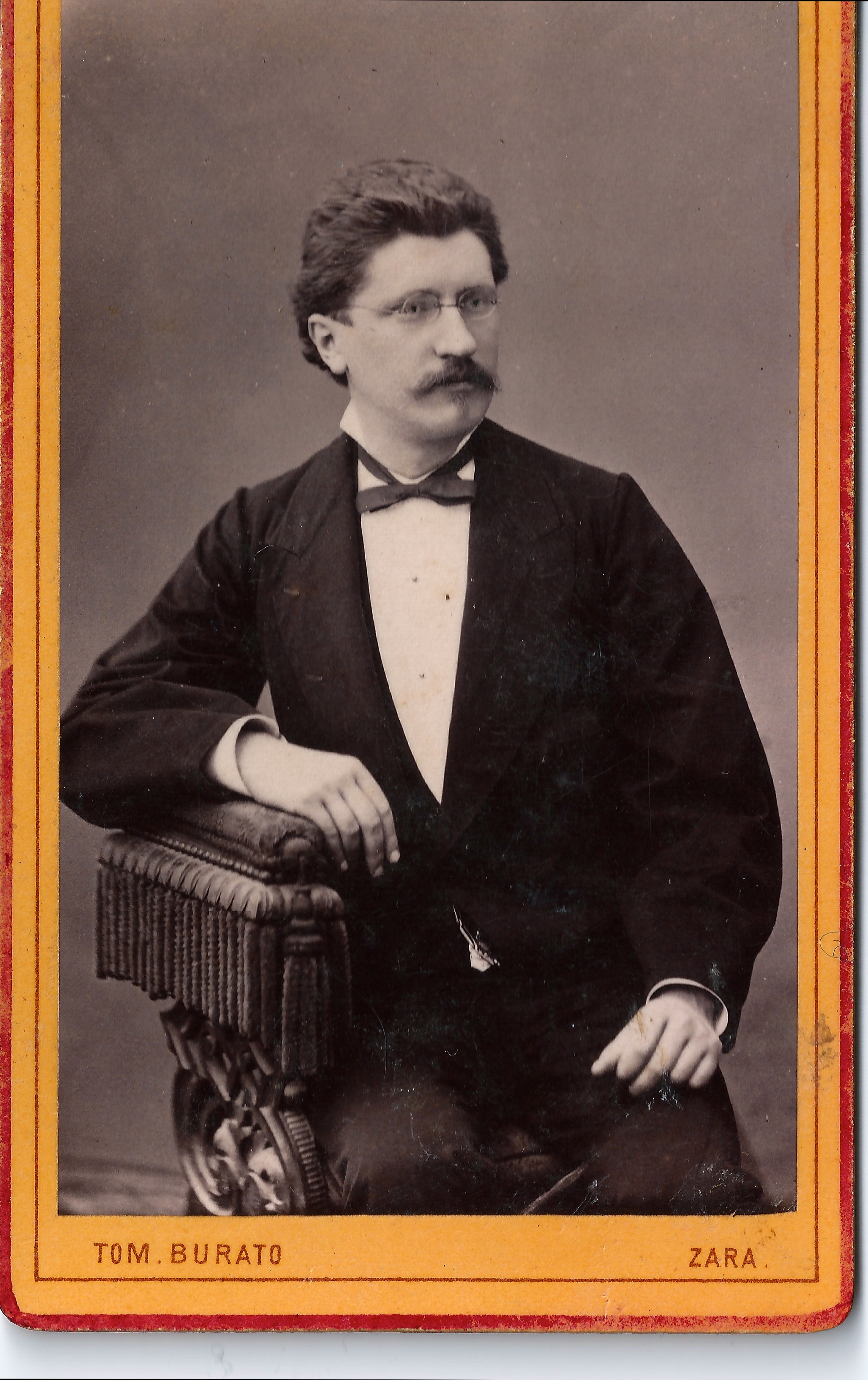 Portrait of Dr. Josip Tončić-Sorinj